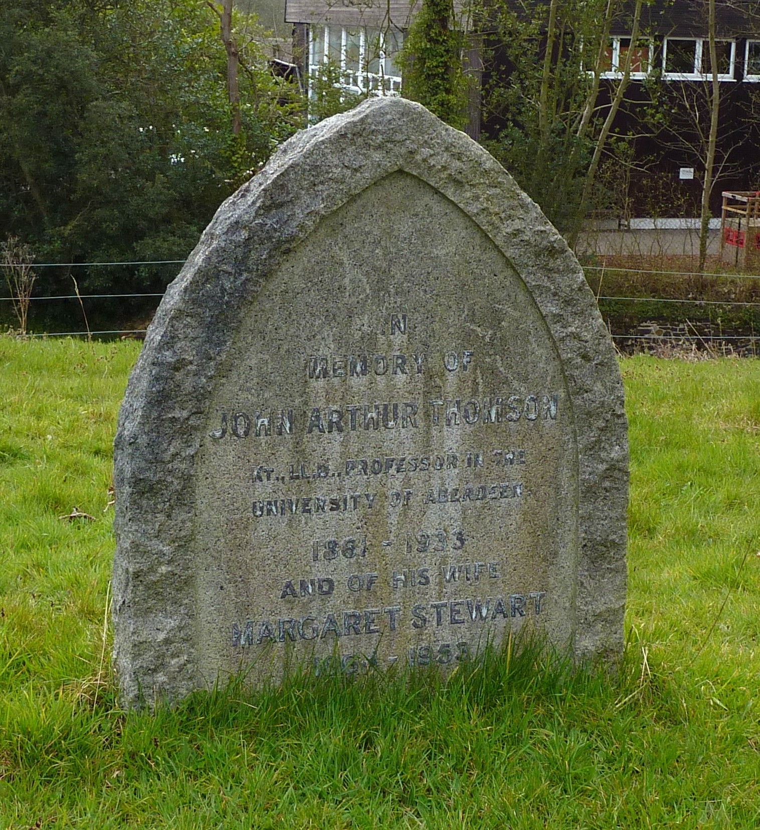 The grave of Scottish naturalist John Arthur Thomson at St Peter's Church in Limpsfield, Surrey, England.